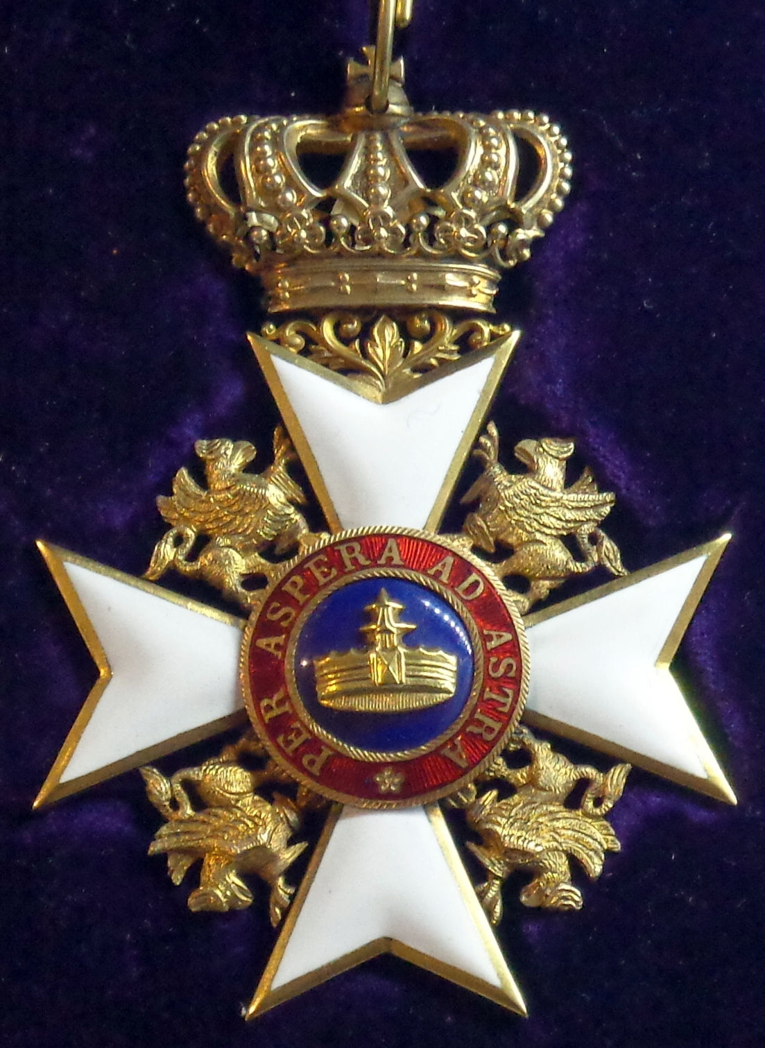 House Order of the Wendish Crown, Commander's badge, 1880-1900. Grand Duchy of Mecklenburg-Strelitz. The exhibition of the Tallinn Museum of Orders of Knighthood, Estonia.